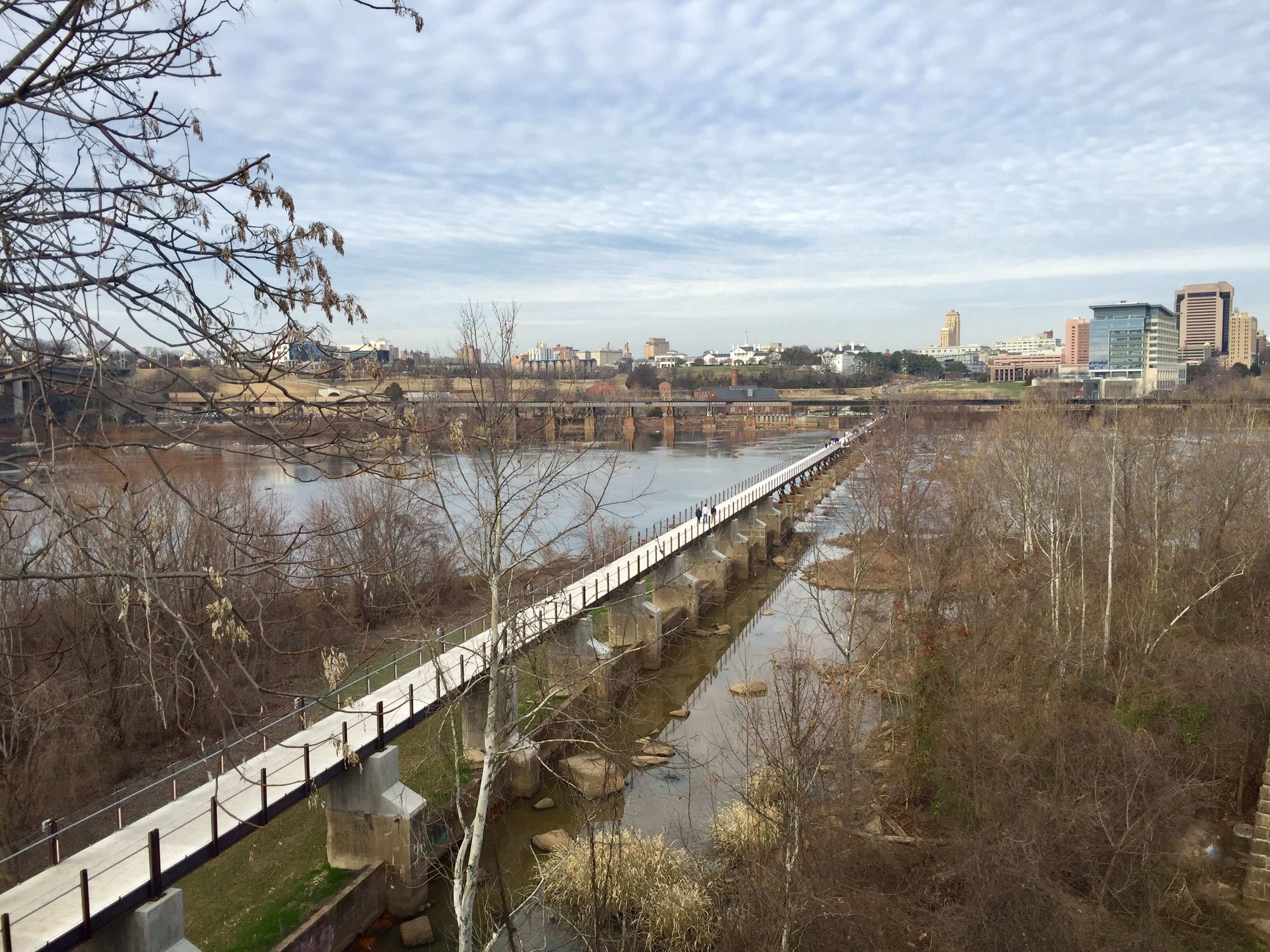 View of the T. Tyler Potterfield Memorial Bridge or Browns Island Dam Walk bridge from the south side of the James River.